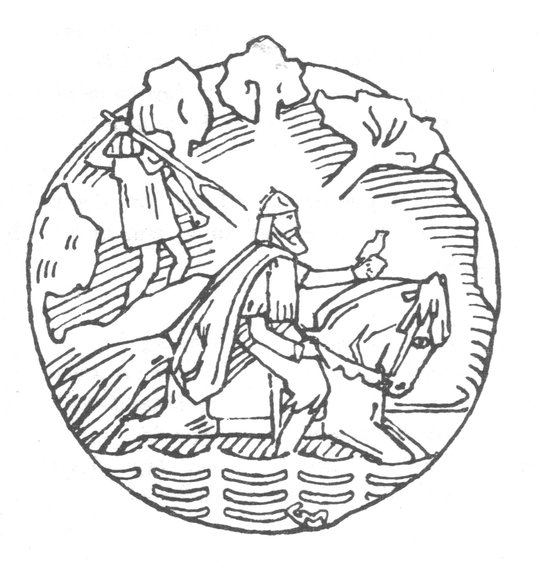 Gerhard Munthe: Illustration for Ynglingesaga. Snorre 1899-edition. 9: King Dag the Wise